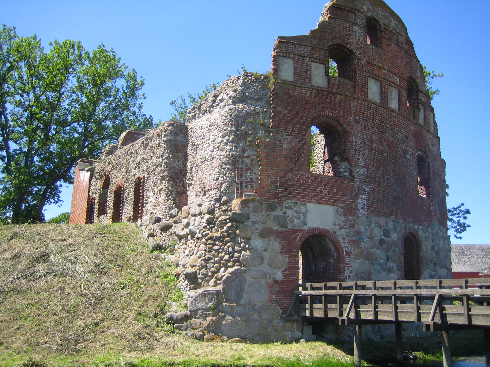 Månstorps gavlar, castle ruins in Scania, Sweden.